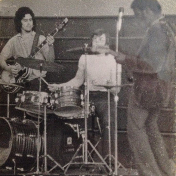 Yul Anderson and Band Plays Jimi Hendrix Memorial Concert, 1972, Vallejo, California, United States